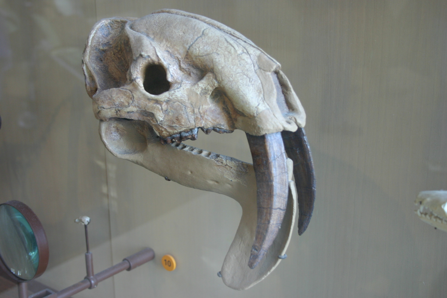 Skull of Thylacosmilus atrox.